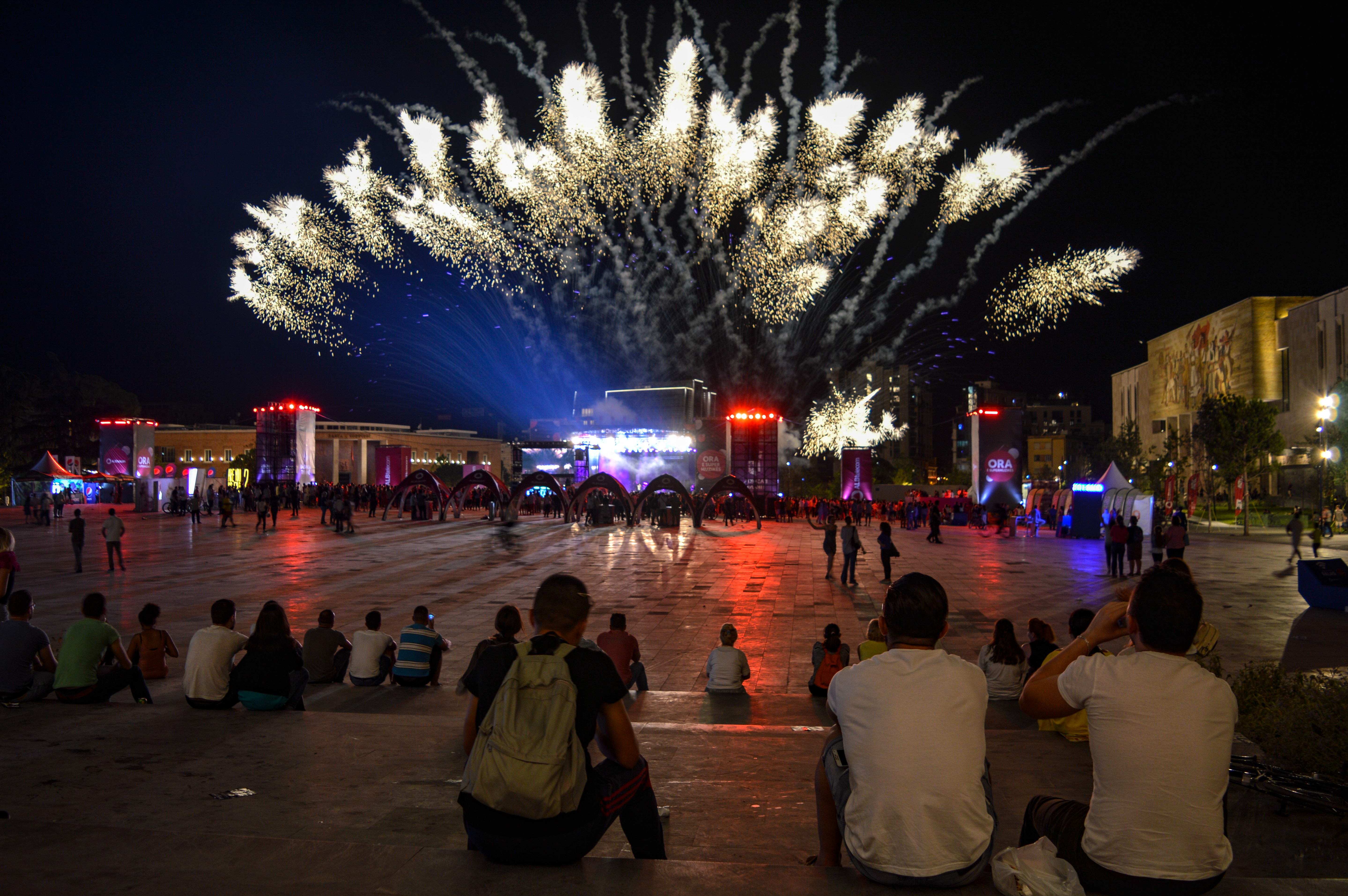 The and of Ermal Meta's concert - Downtown, Tirana, Albania